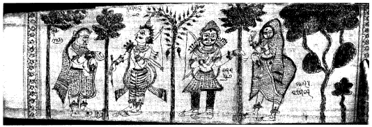 "Sarathi Madala Patnaik, Adhyatma Ramayana[*] (NYPL, 1891). Creation of Maya Sita , f. 42r."